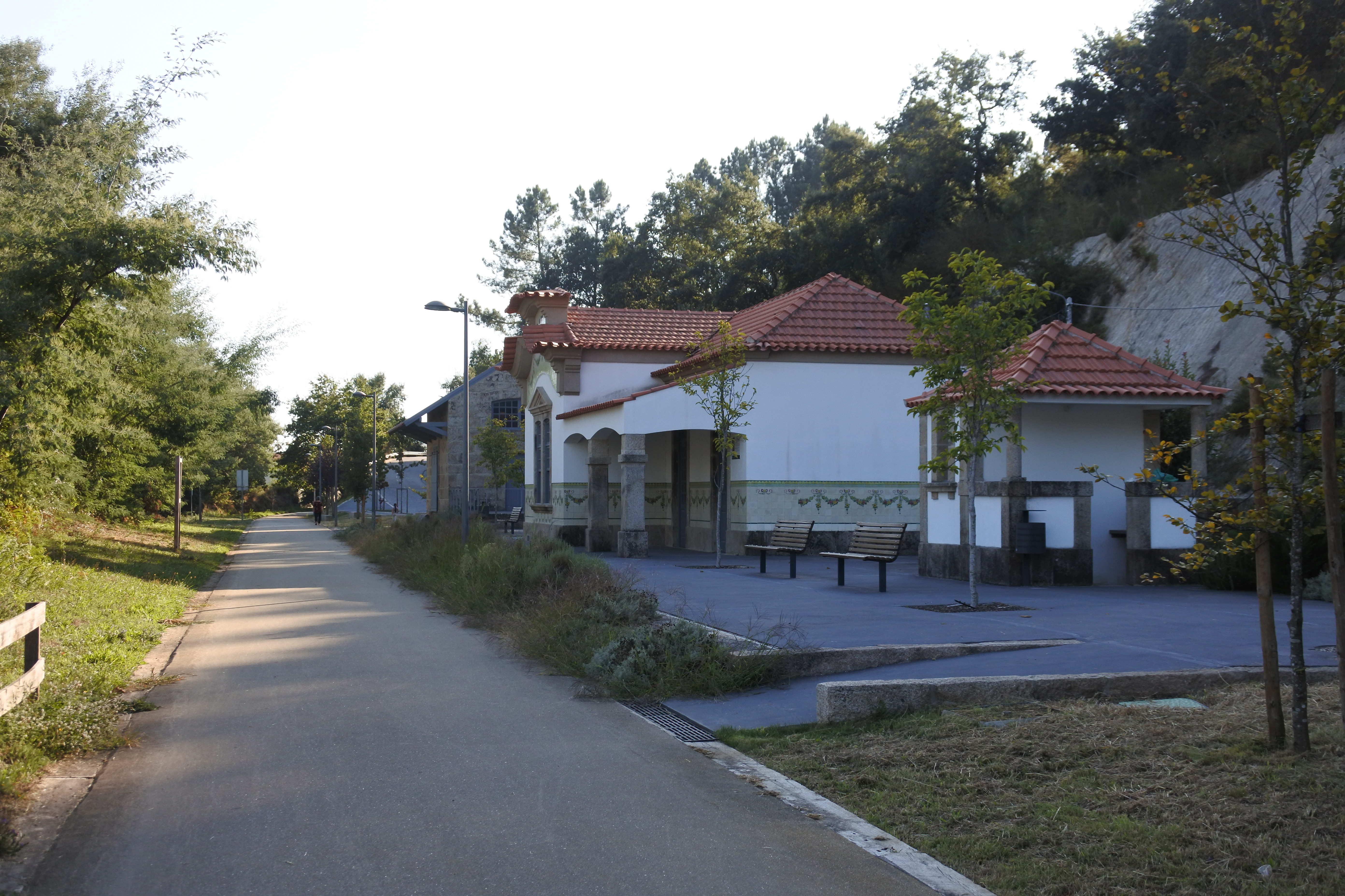 Former Gatão train station at the Tâmega cyclepath